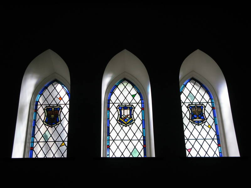 Stained glass windows in the sanctuary of First Reformed Church of Schenectady. The iconography depicts chapters in the life of Christ.